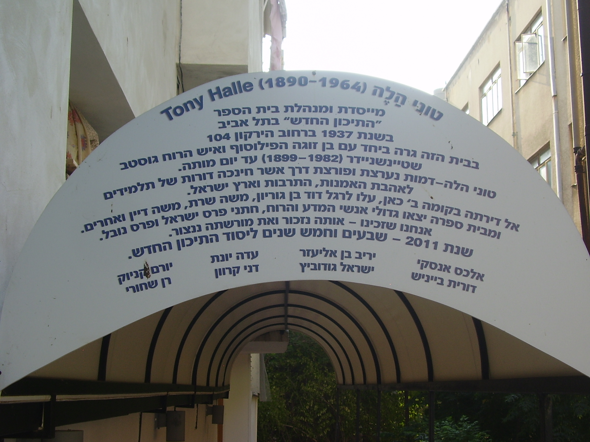 tony halle memorial plaque at her house in tel aviv שלט זיכרון בכניסה לביתה של טוני הלה ברחוב דב הוז 20 בתל אביב